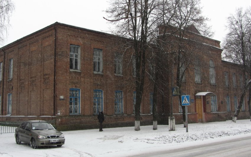 м.Лохвиця. Медичне училище